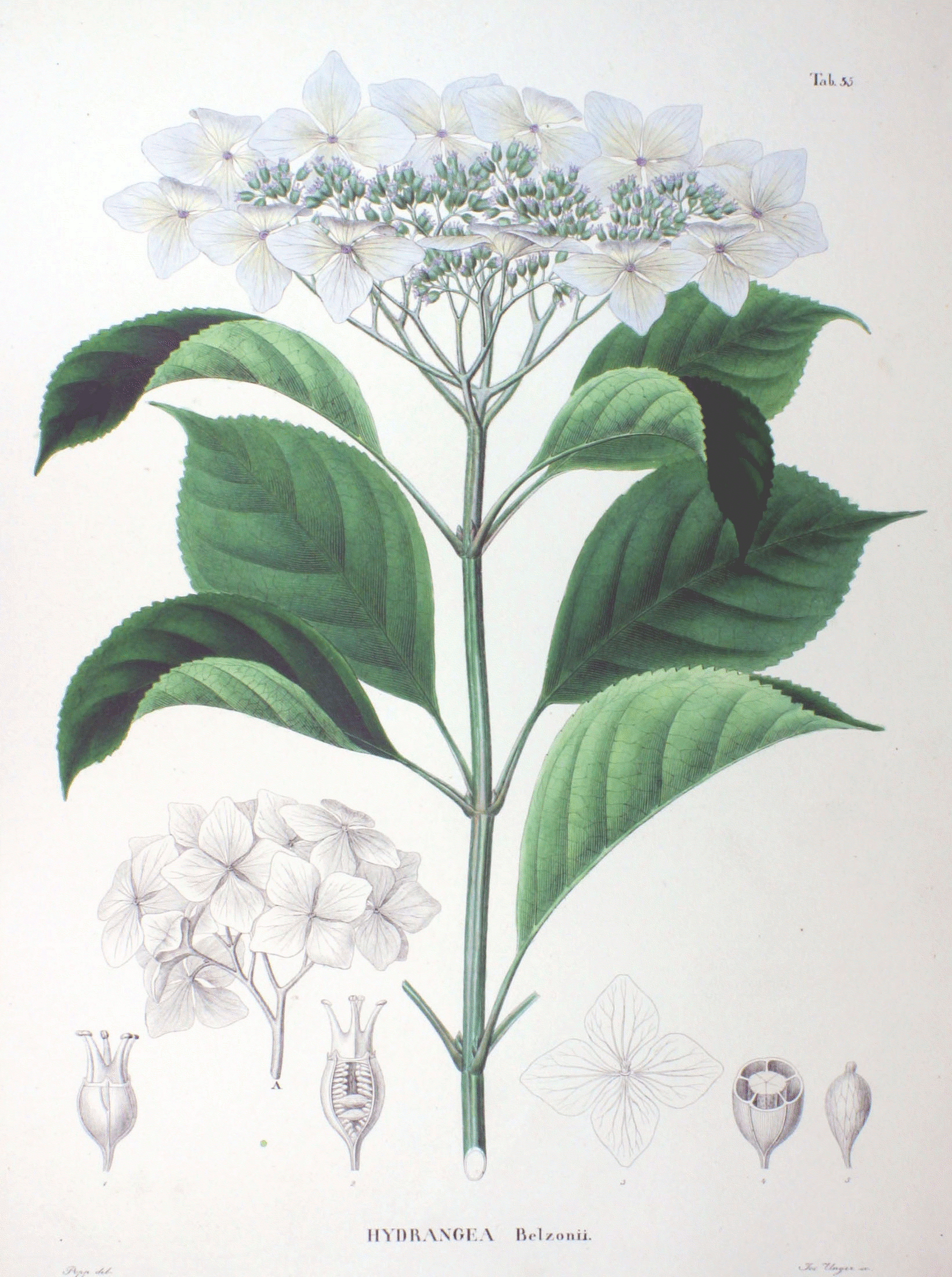 Hydrangea macrophylla Plate from book